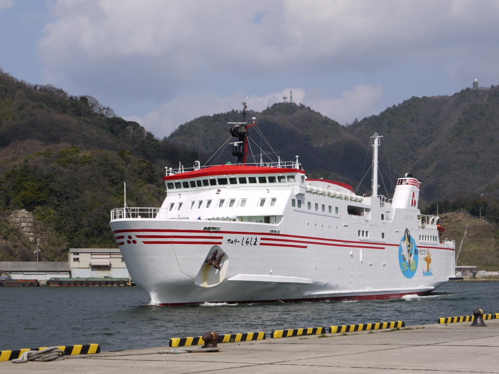 Ferry Shirashima at Sakaiminato.